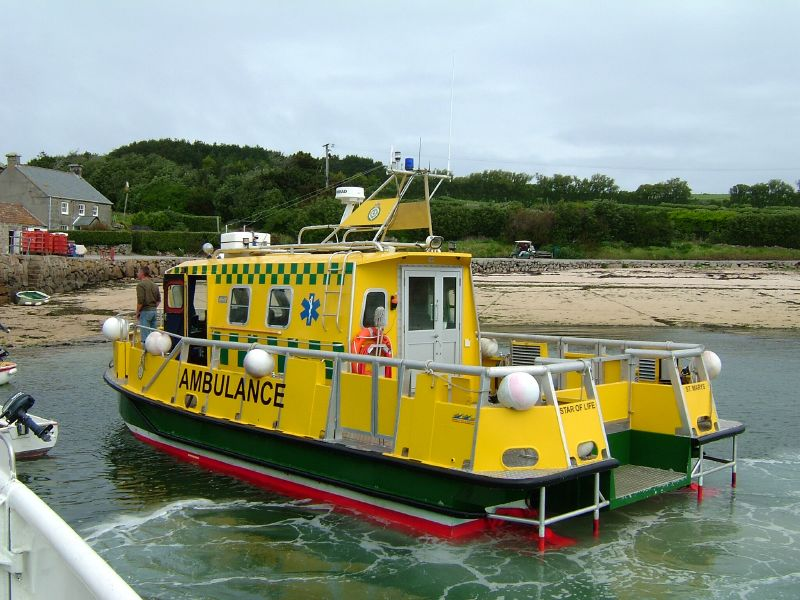 The Scilly Isles Ambulance Service alongside Tresco quay.